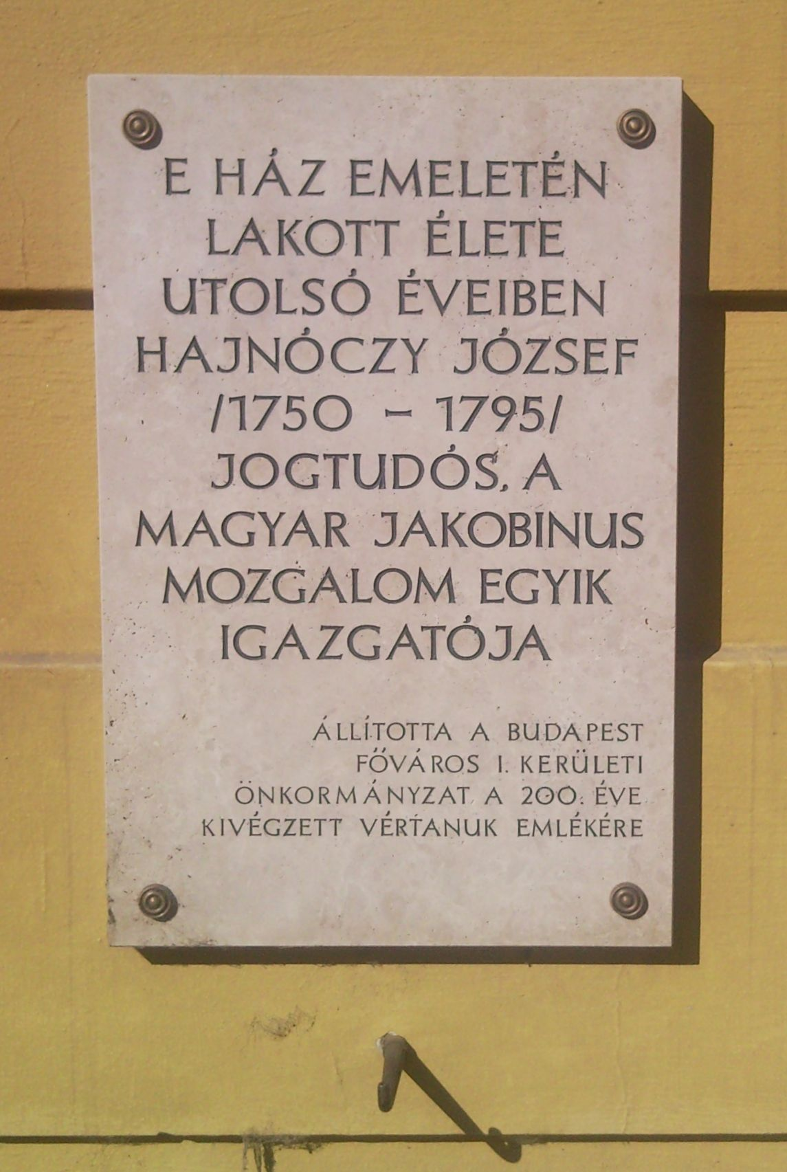 József Hajnóczy commemorative plaque in Budapest District I, Fortuna Street No 5